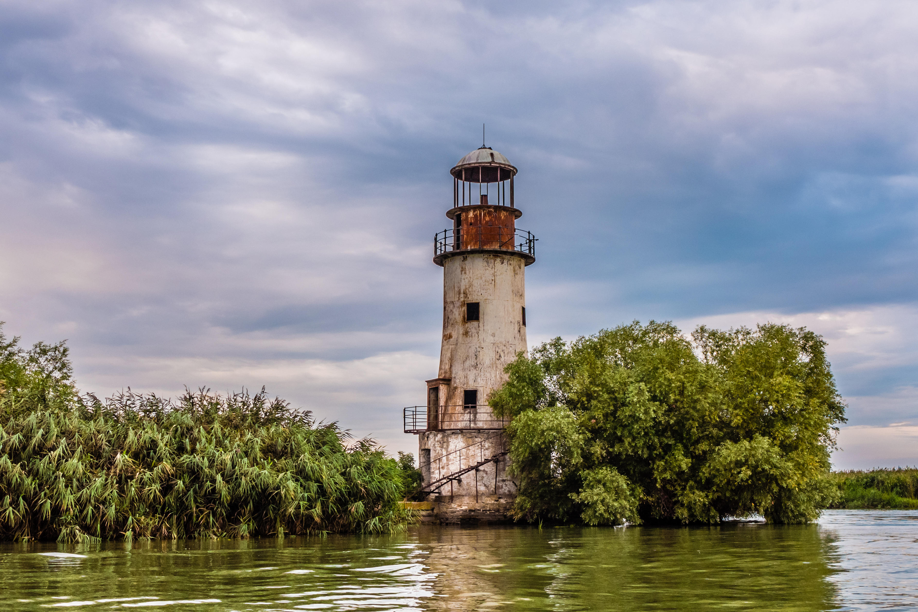 Old Lighthouse in Sulina